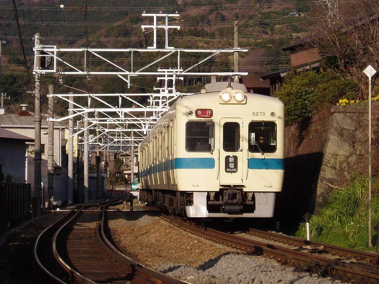 Odakyu Electric Railway Company, EMU Type 5200 at Kazamatsuri Sta.